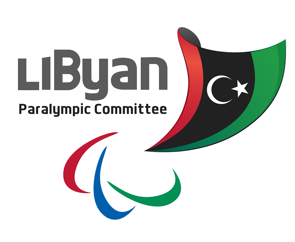 Libya Paralympic committee logo